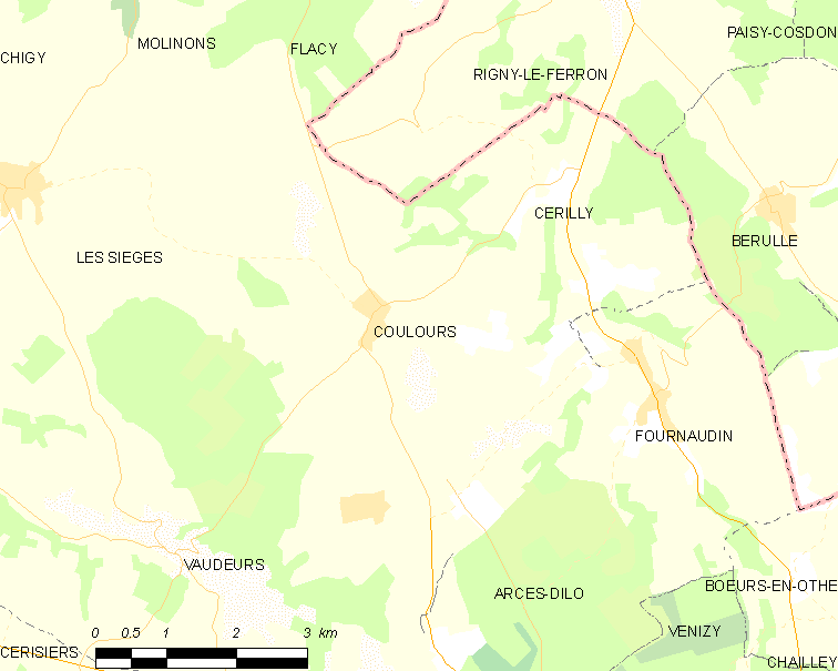 Map of French municipality Coulours